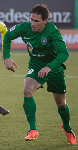 Zhivko Milanov with FC Tom Tomsk